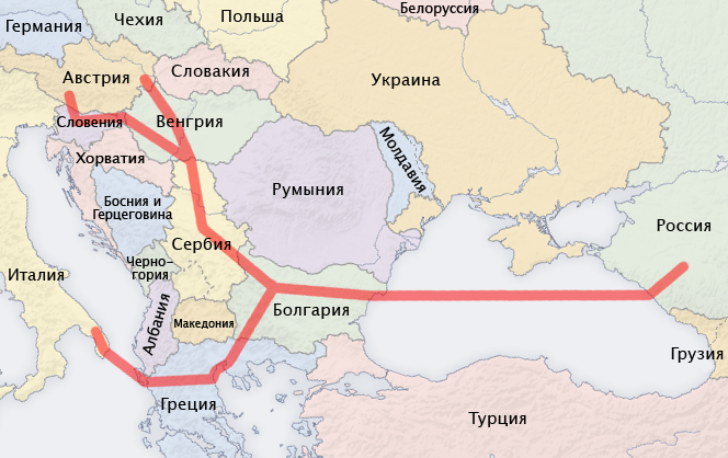 Map of South Stream gas pipeline